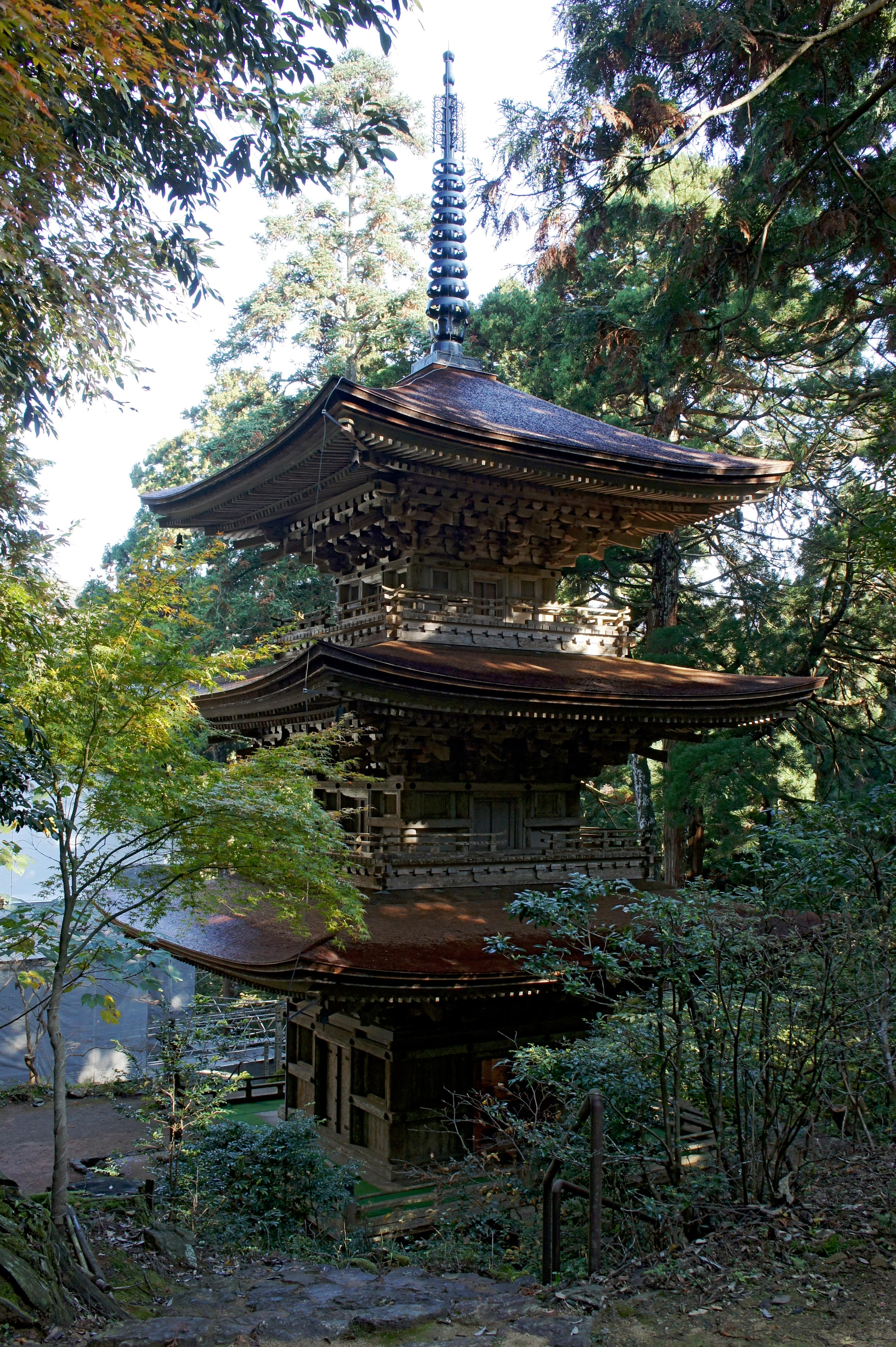 Pagoda of Myōtsū-ji Buddhist temple (Japan's National Treasure) in Obama, Fukui prefecture, Japan. It was built in 1270.